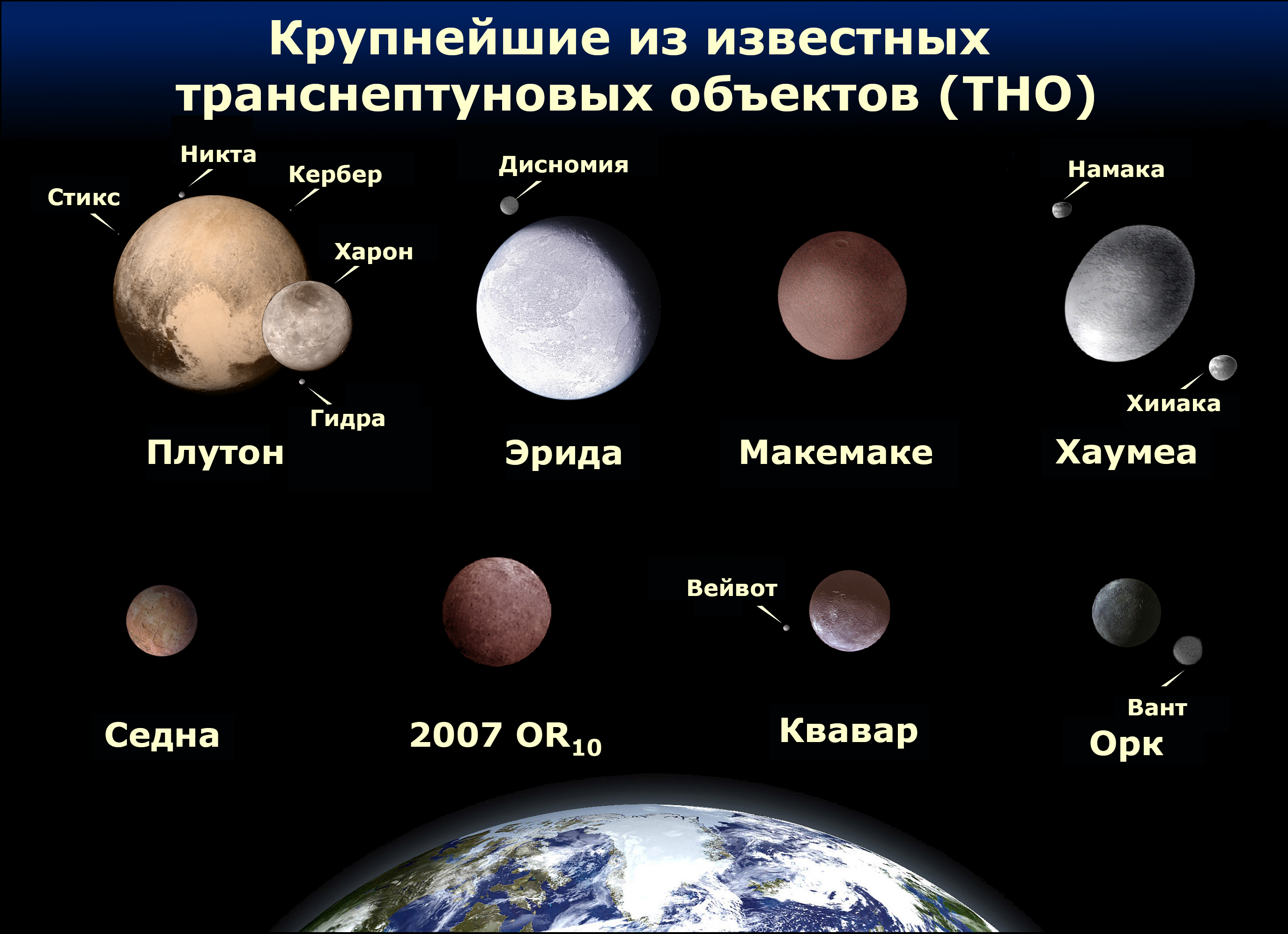 Comparison of the eight largest TNOs